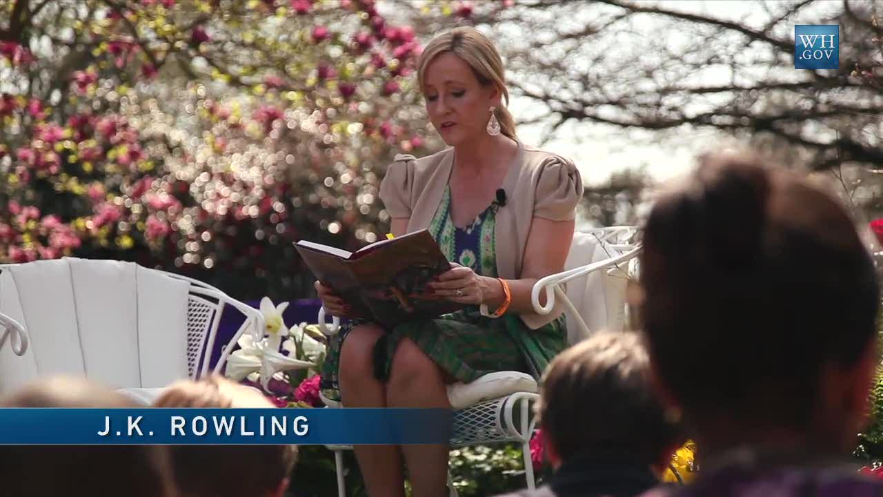 Author J.K. Rowling reads Harry Potter and the Sorcerer's Stone during the Easter Egg Roll on the White House South Lawn. Rowling read an excerpt focusing on Harry buying his wand from Ollivander's. Screenshot from official White House video.